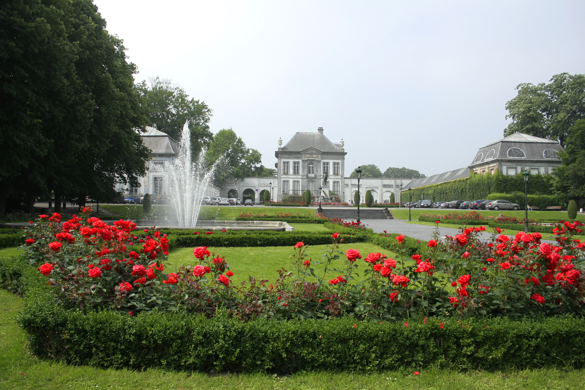 Tournai (Belgium), the old Abbot palace of the St. Martin abbey (1763) actual City hall.